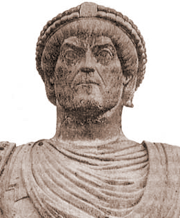 The Colossus of Barletta, detail. The statue is presumably to be identified with East Roman emperor Marcianus (450–457); cf. Alexander Demandt, Die Spätantike. Römische Geschichte von Diocletian bis Justinian. 284–565 n. Chr. 2. vollständig überarbeitete und erweiterte Auflage. Beck, München 2007, ISBN 978-3-406-55993-8, p. 220.